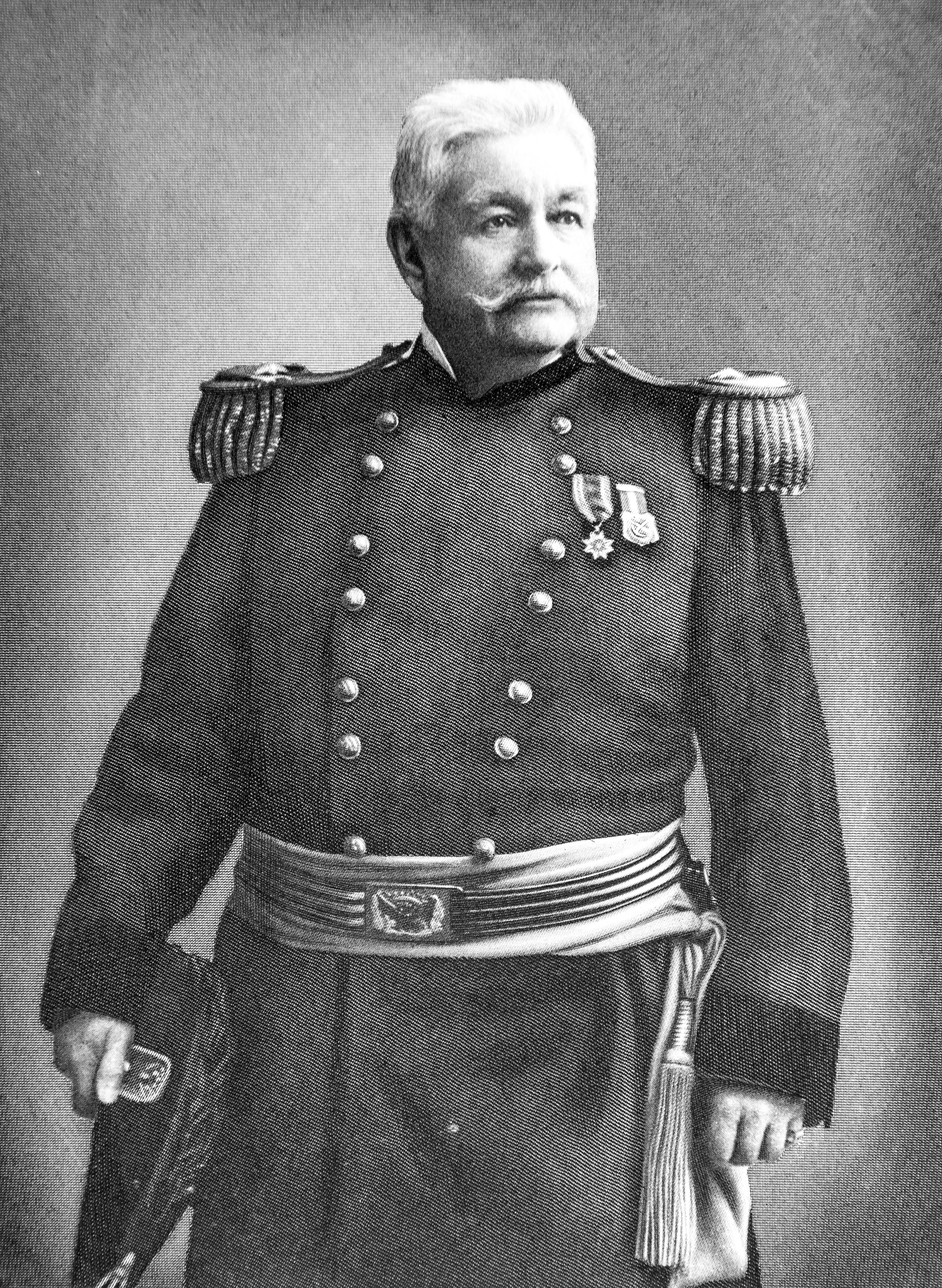 Engraving from Memorial Encyclopedia of the State of Rhode Island, 1916.